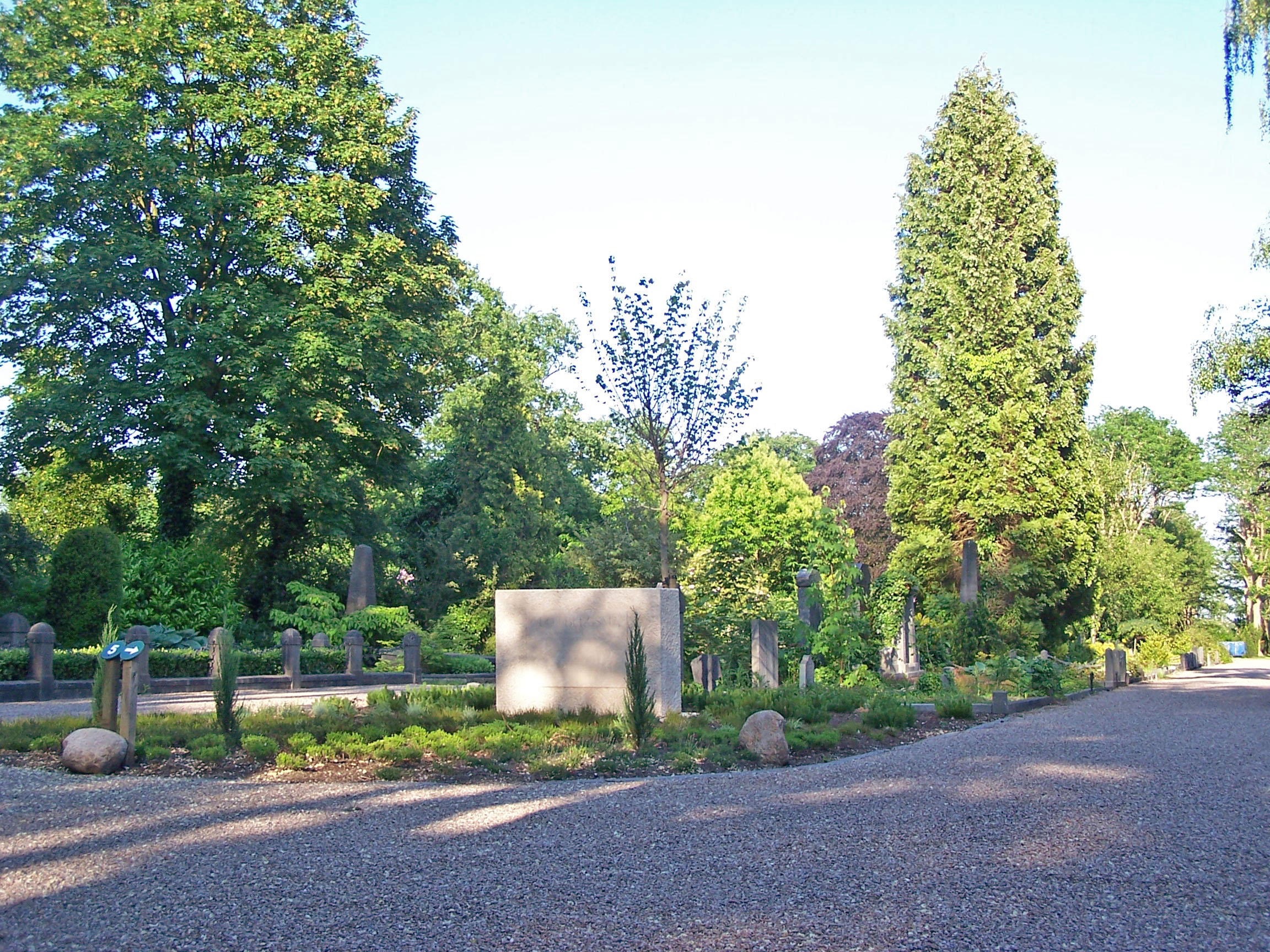 Grave of (former mayor) Edo Bergsma on the Oosterbegraafplaats, a cemetary in Enschede